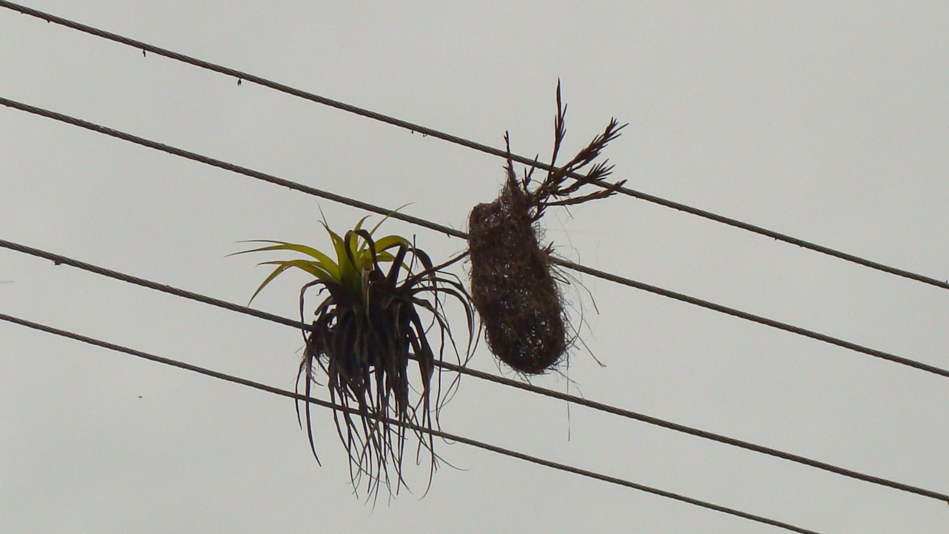 A bromeliad carries a bird nest